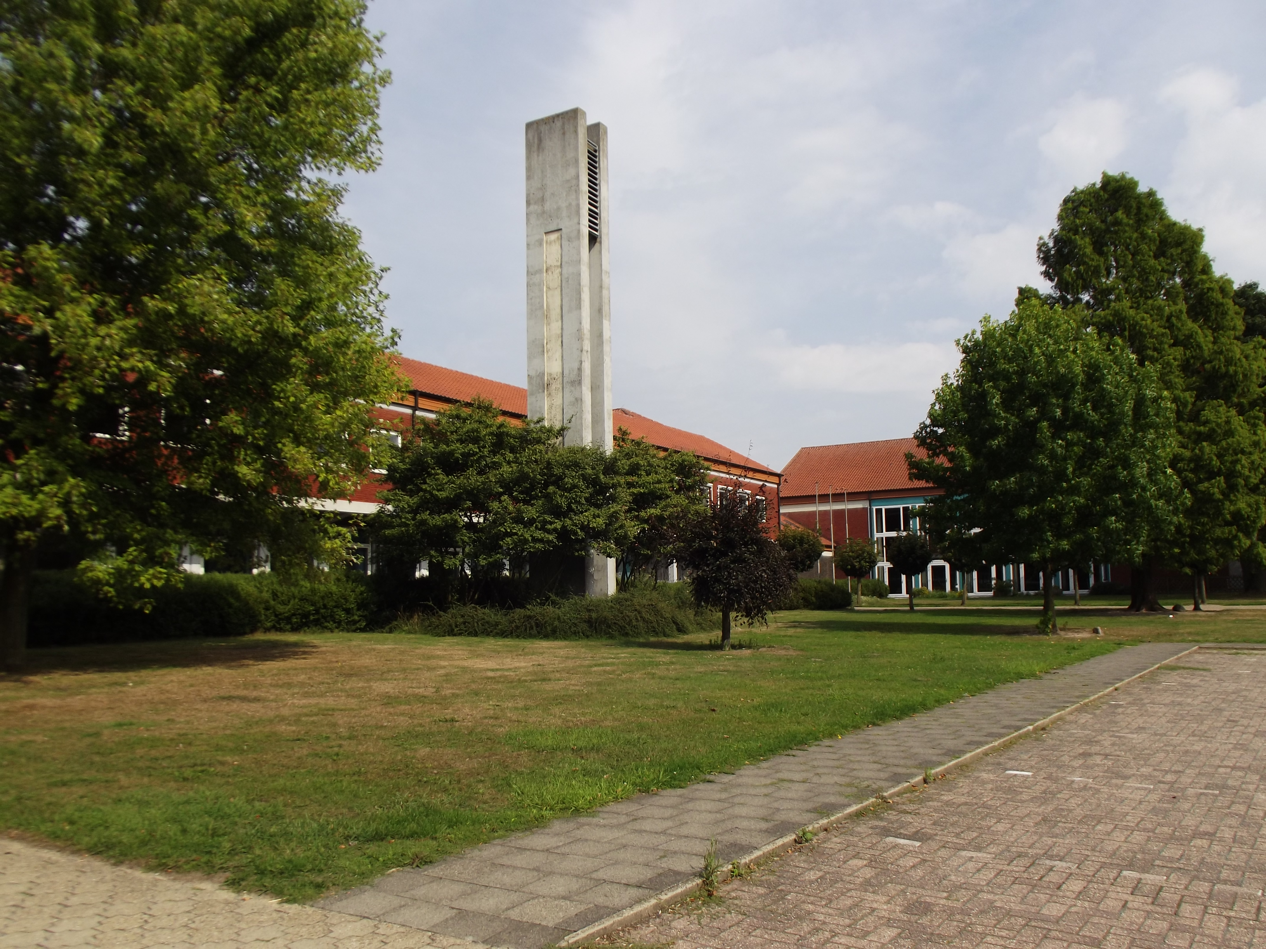 Pic shows the school which is named after Count Arnold